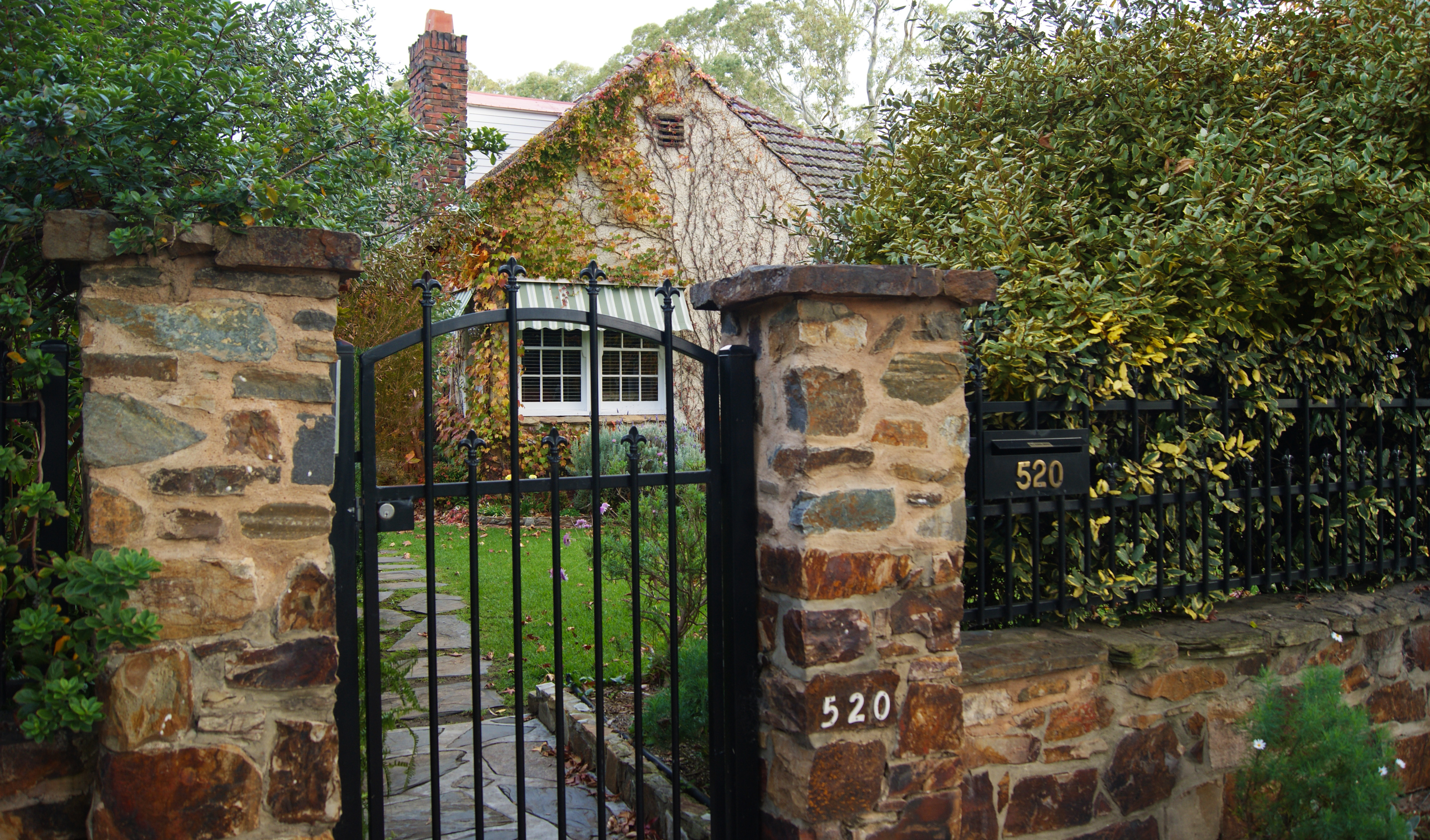 Residence in Burnside, South Australia